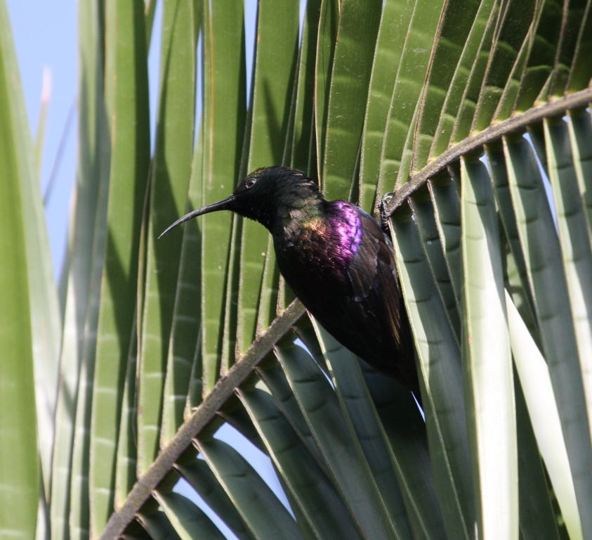 Tacazze Sunbird in Ghion hotel park, Addis Ababa, Ethiopia.